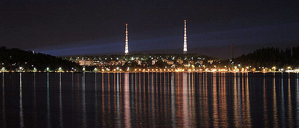 Lahti skyline w/o logo